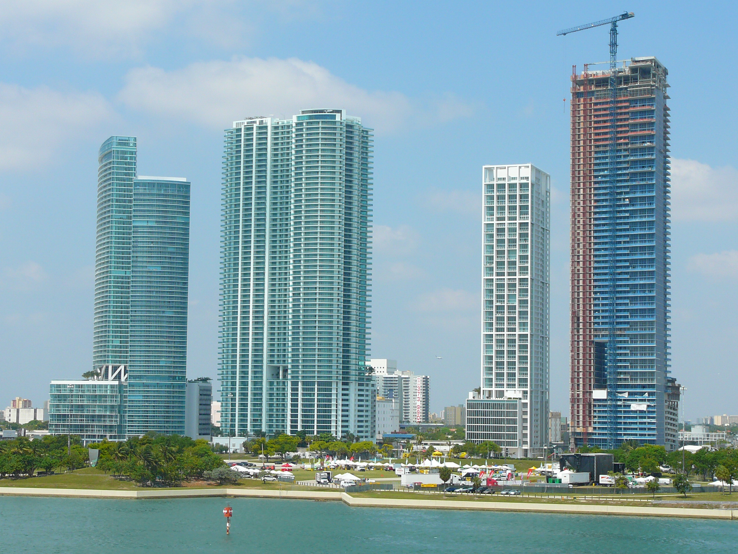 Digital photo taken by Marc Averette. The northern portion of the Biscayne Wall in Downtown Miami, 5/17/2008.